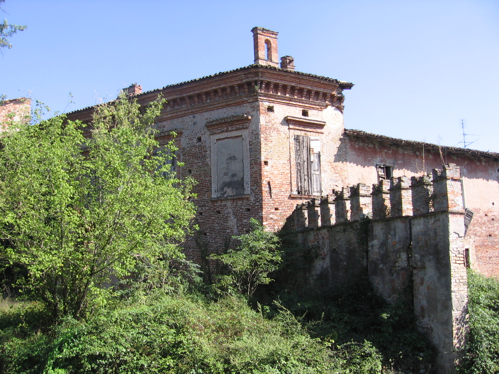 Liteggio castle, Cologno al Serio, Bergamo, Italy